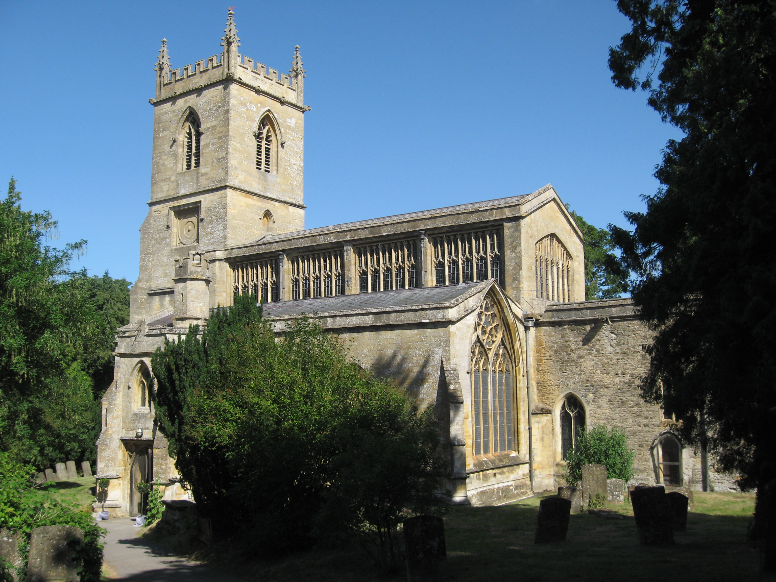 Church of England parish church of St Mary the Virgin, Chipping Norton, Oxfordshire, England. St Mary's is one of the largest of the Cotswold churches funded by the medieval wool trade. It was mostly rebuilt in the 15th century, and has one of only three medieval hexagonal porches in England.